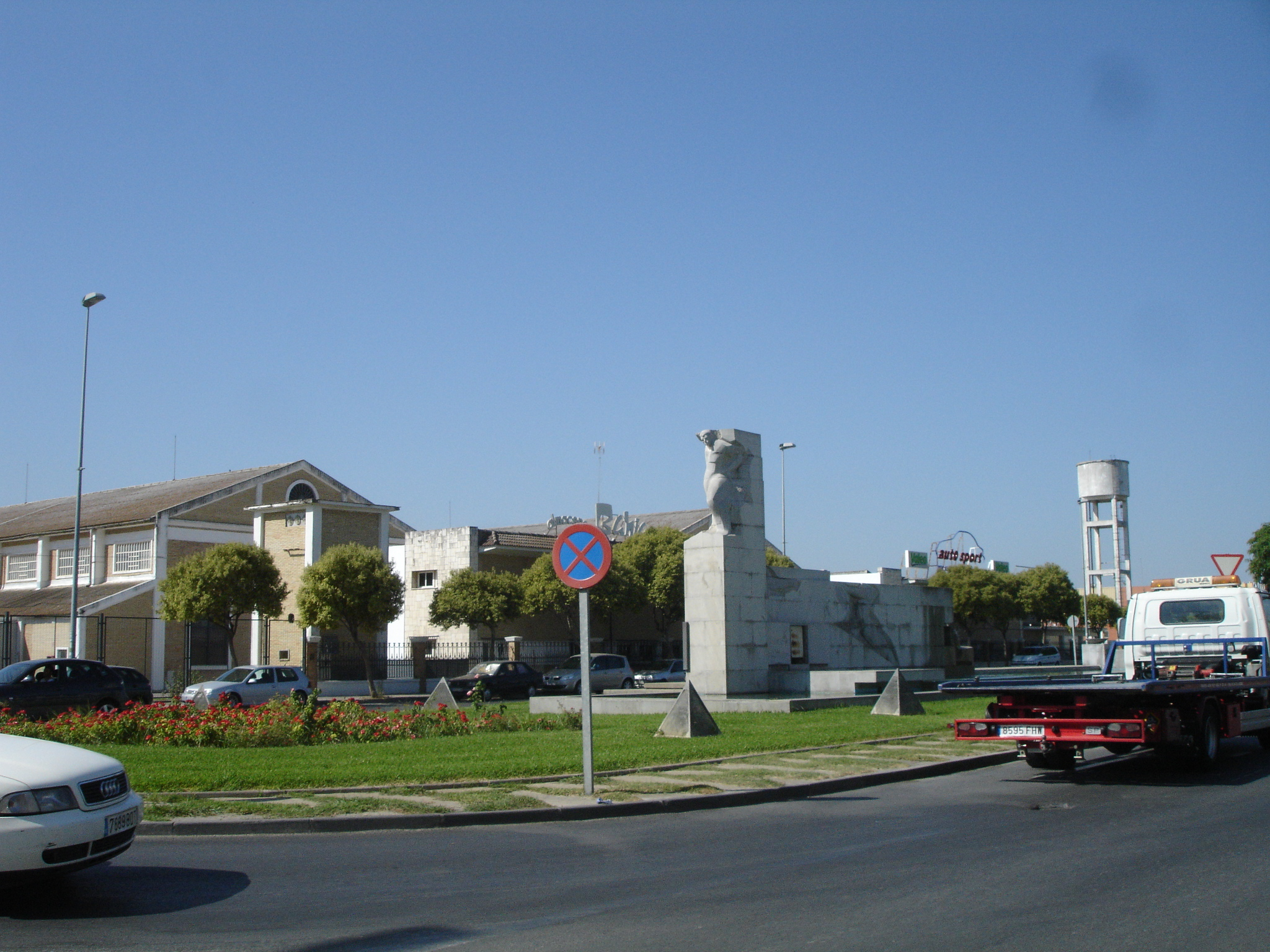 Monument to sherry barrels maintainers, Jerez de la Frontera. (Andalusia, Spain)